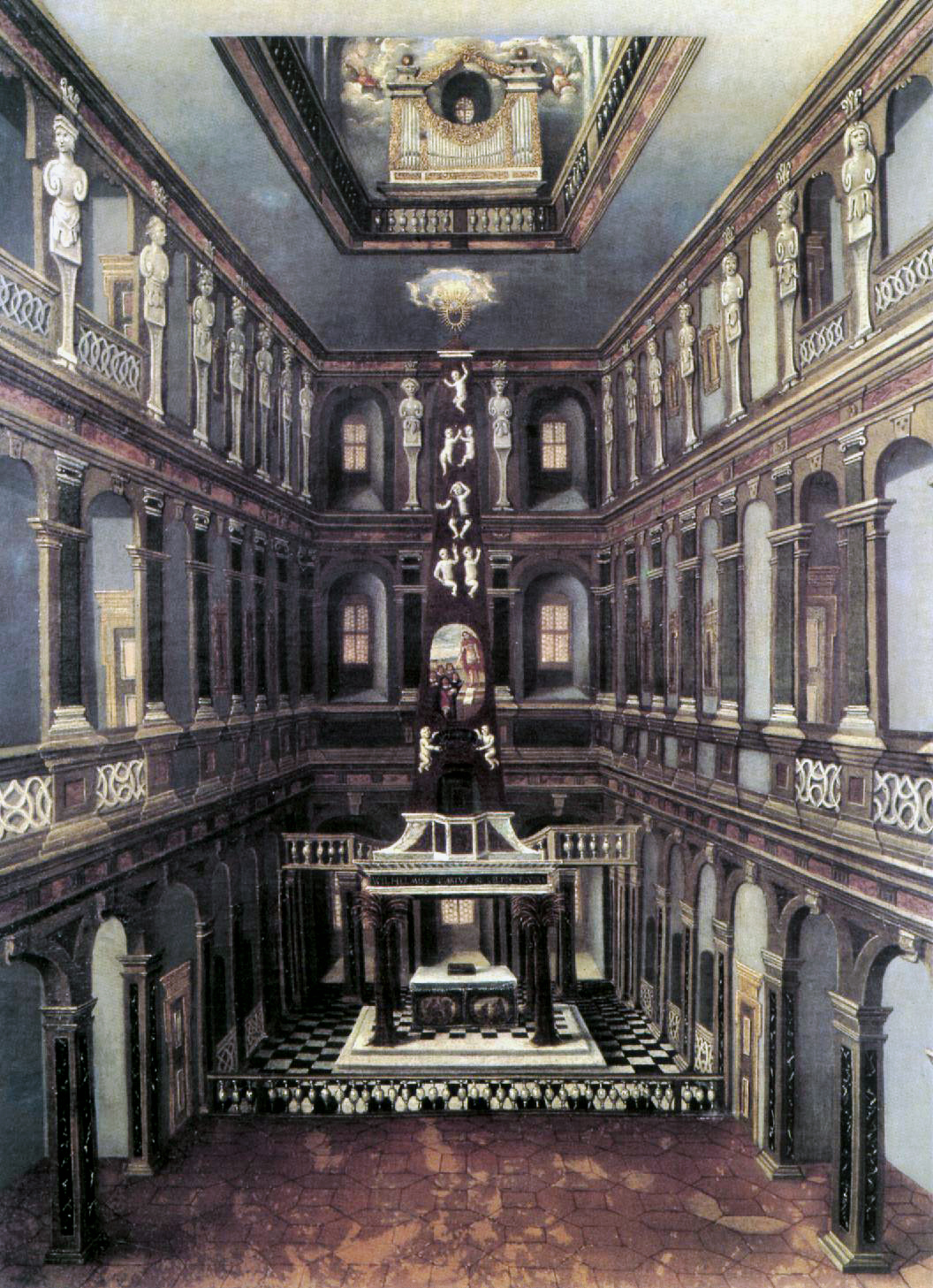 Schlosskirche Weimar, oil painting on canvas. Portrayal of the inside of the Palace Church, which burnt down in 1774 (J. S. Bach worked as court organist in this church)